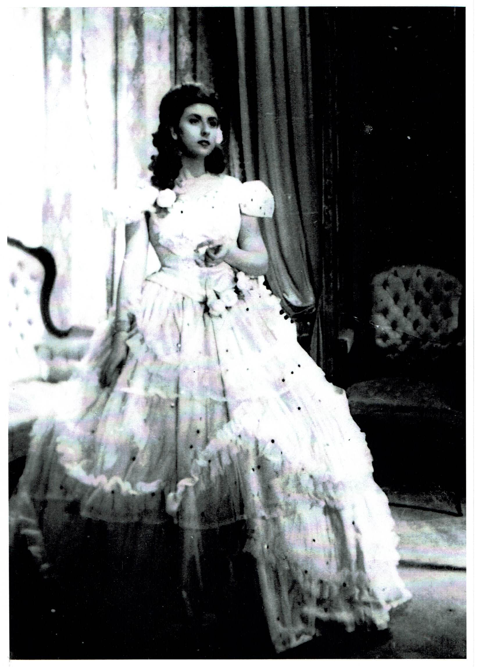 Marimí del Pozo in Rigoletto